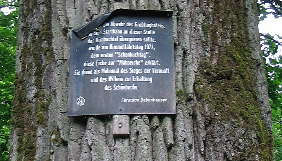 Memorial Oak in a forrest in the Schönbuch, Germany